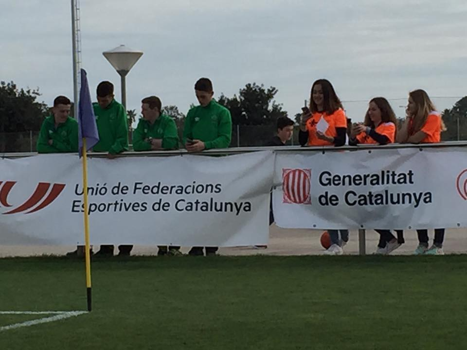 Photo taken at IFCPF Pre Paralympic Tournament Salou 2016 using personal iPhone.